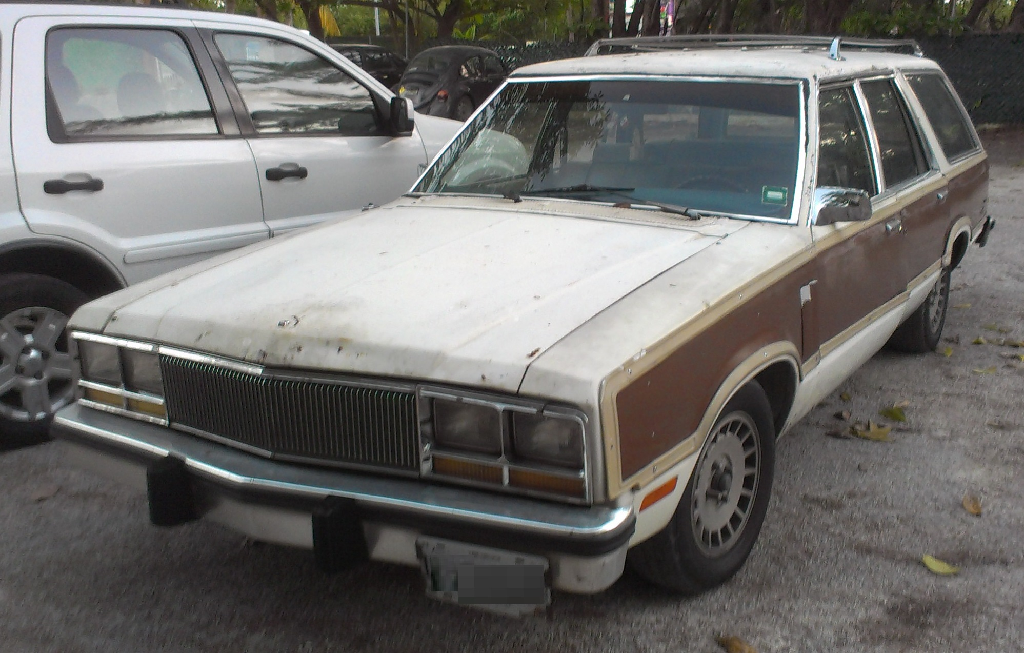 Ford Fairmont (NOT A MERCURY ZEPHYR BECAUSE FORD DID NOT MARKET MERCURY IN MEXICO AT THE TIME) photographed in Cancun, Quintana Roo, Mexico.